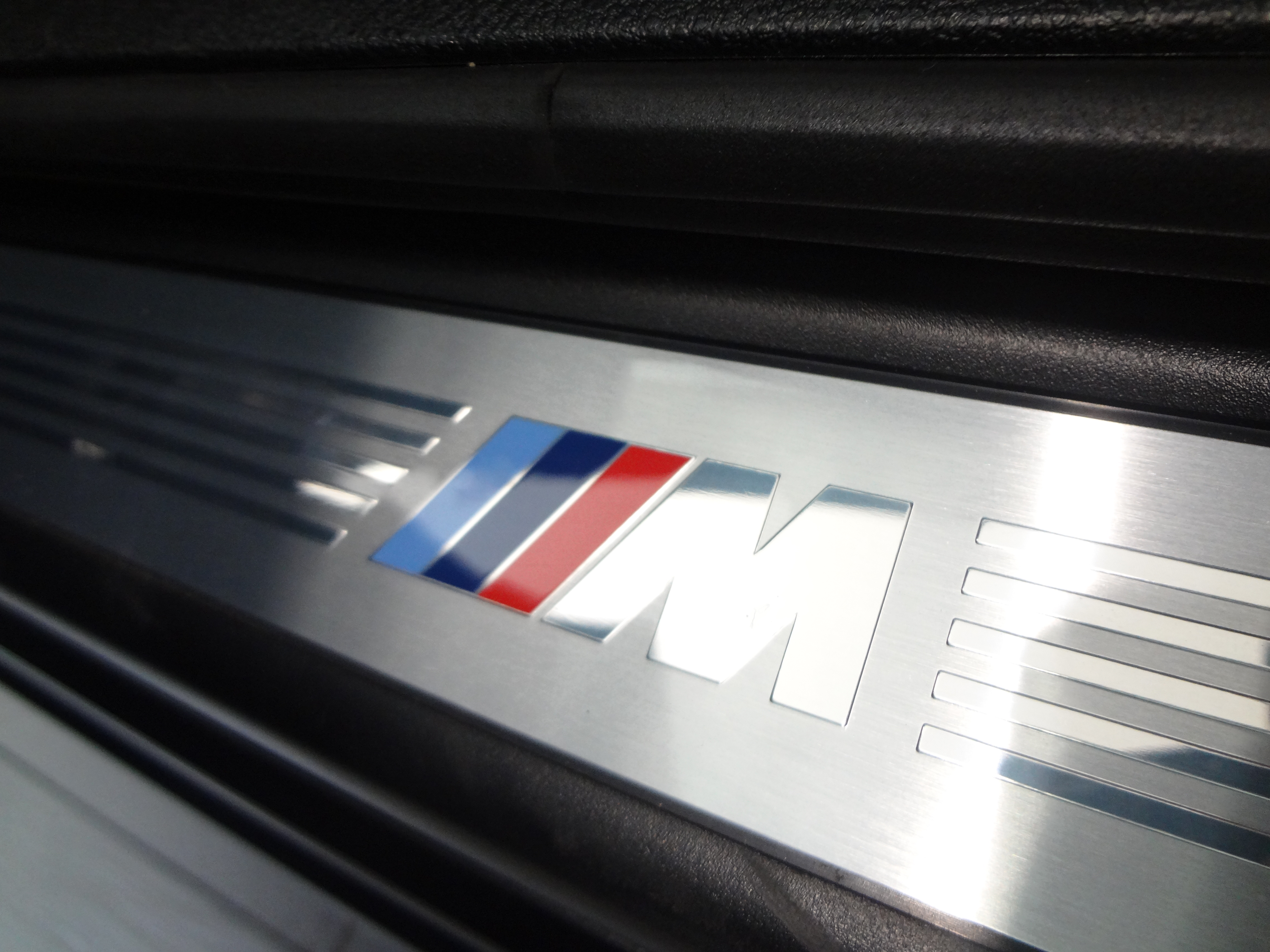 Photography by David Adam Kess BMW M6, door jam, new Madrid, 2016, Julio . Augusto